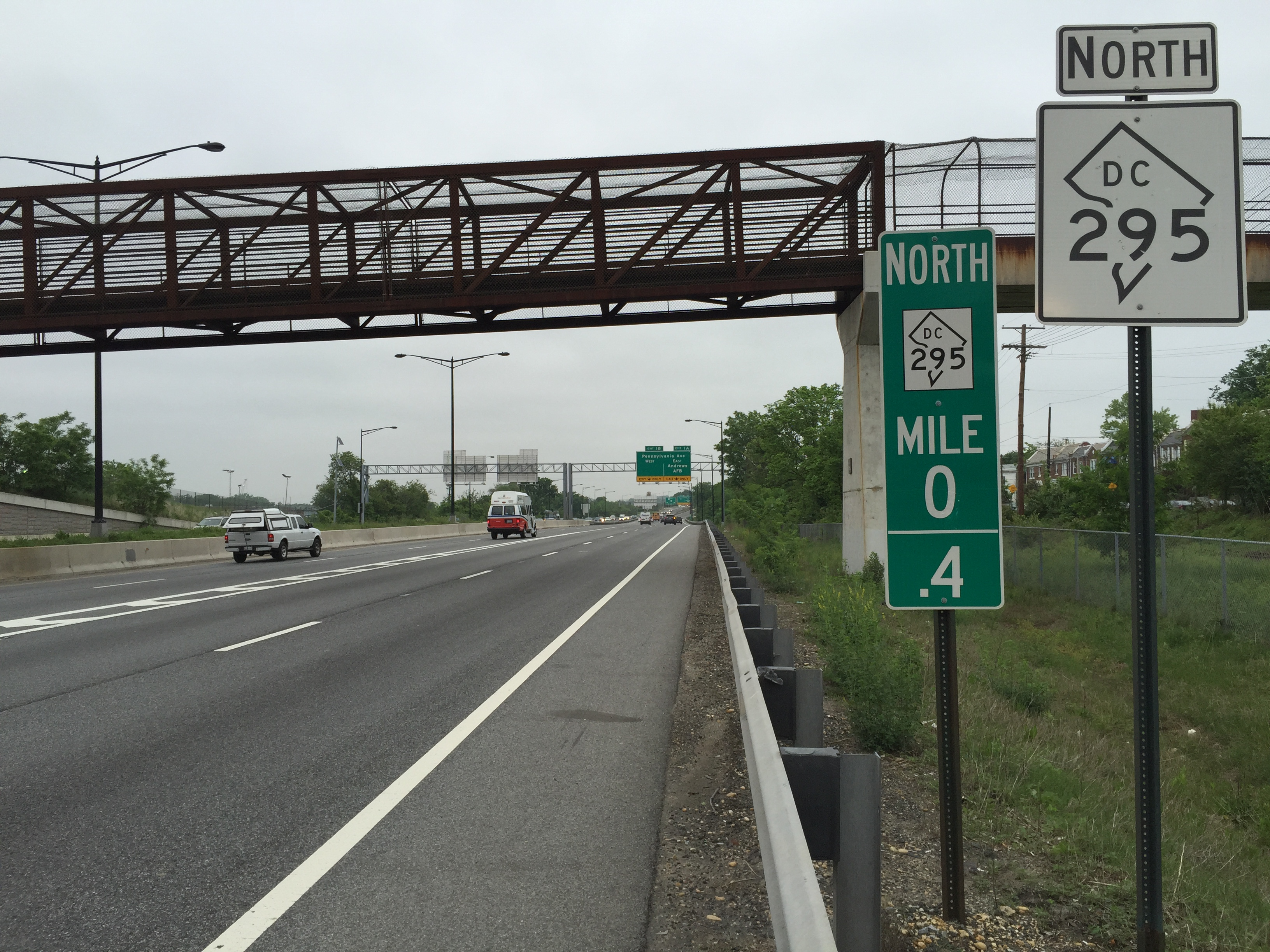 View north along the Anacostia Freeway (District of Columbia Route 295) at milepost 0.4 in Washington, D.C.